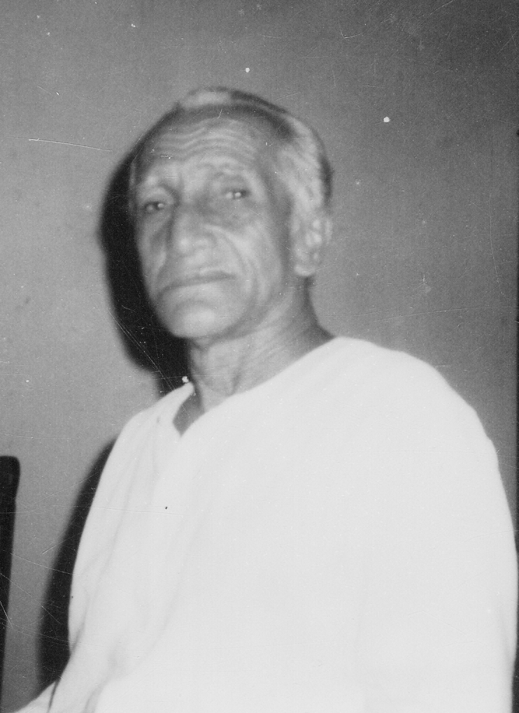 Vakkom Majeed, pictured in the 1980s